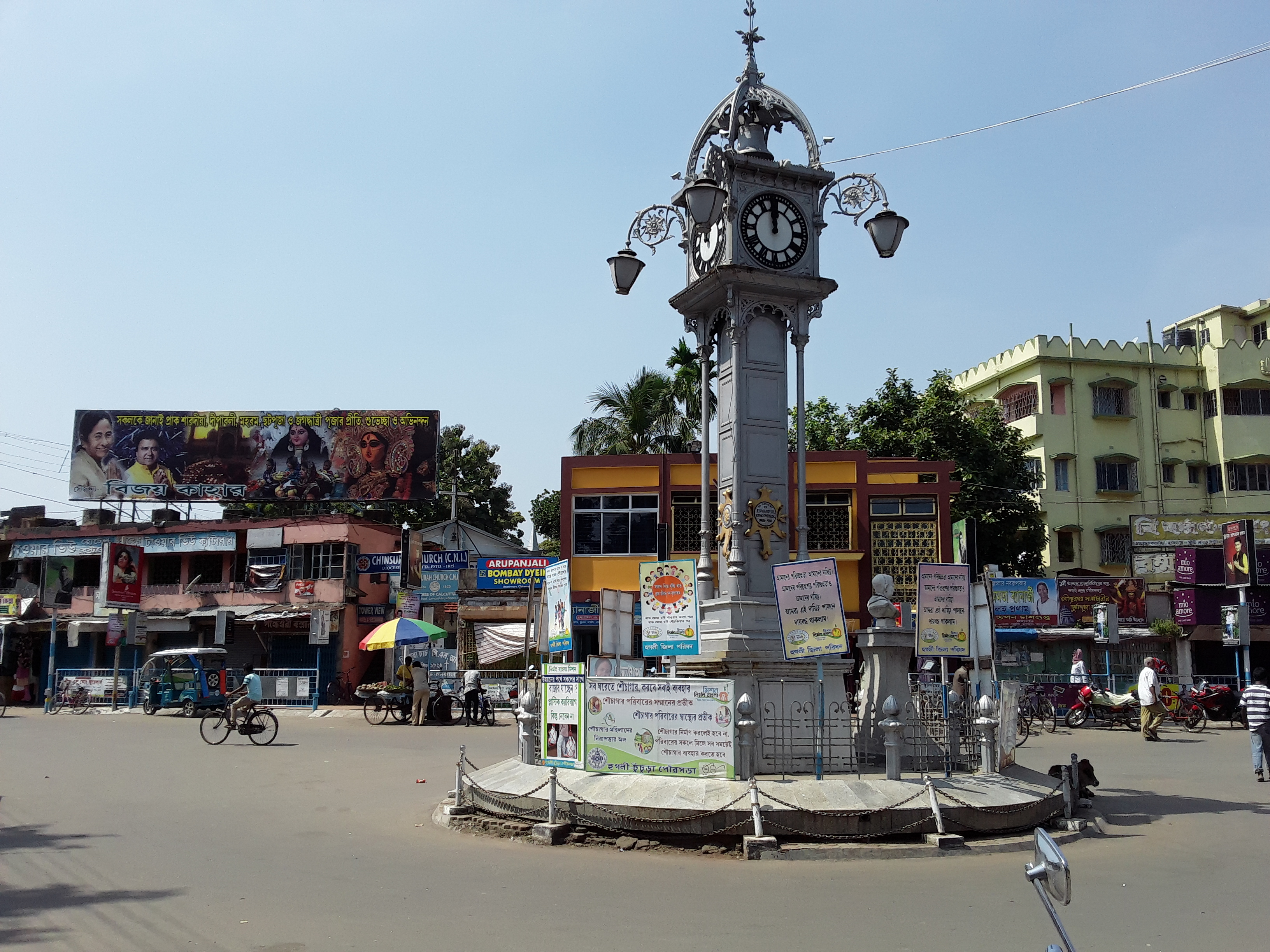 The Tower Clock was shipped into Chinsurah by the British to commemorate King Edward VI. A fascinating piece of art-work, it still stands at the heart of the town with its four clocks fully functional!